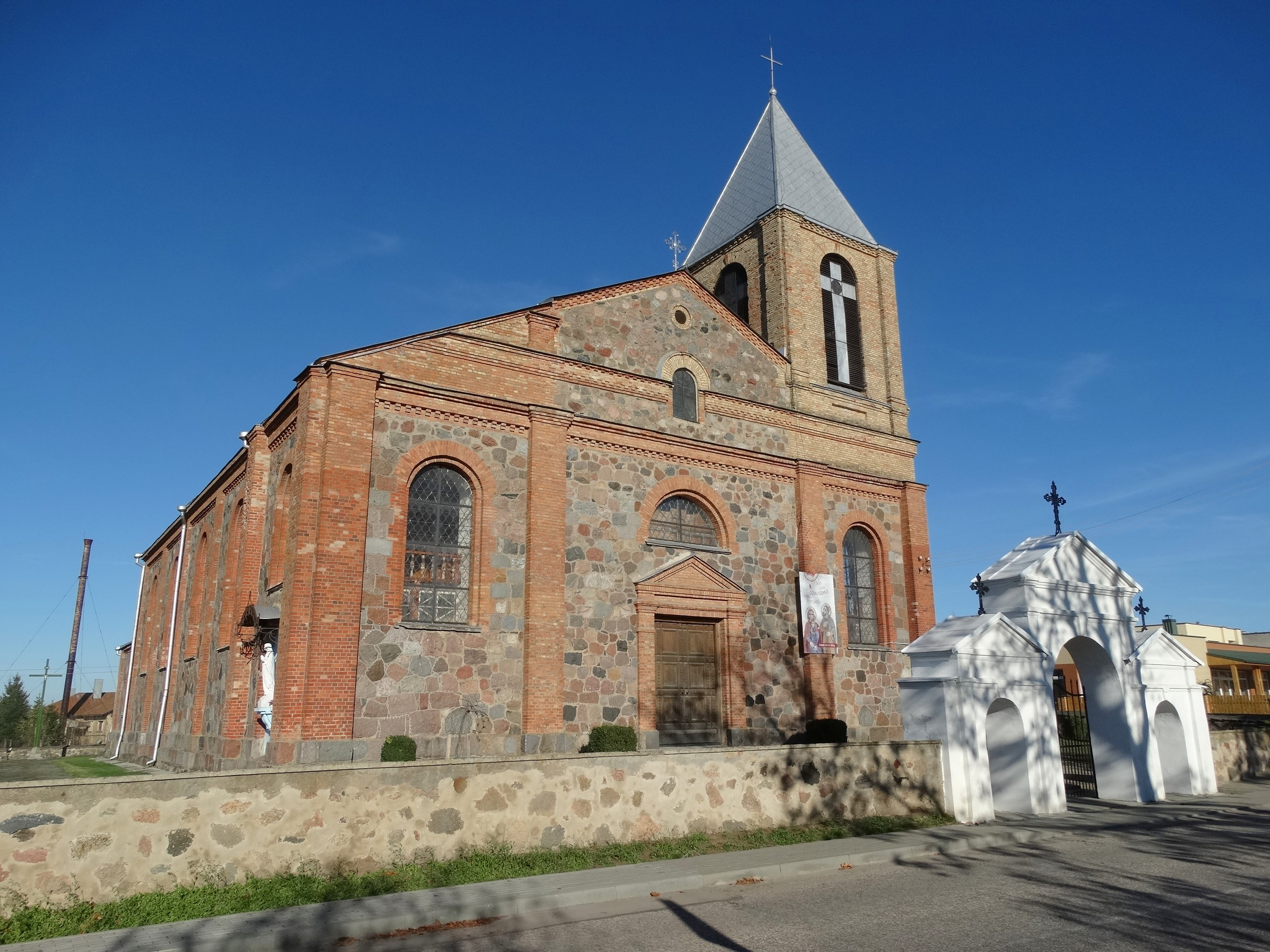 Roman Catholic Church in Butrimonys, Alytus district, Lithuania